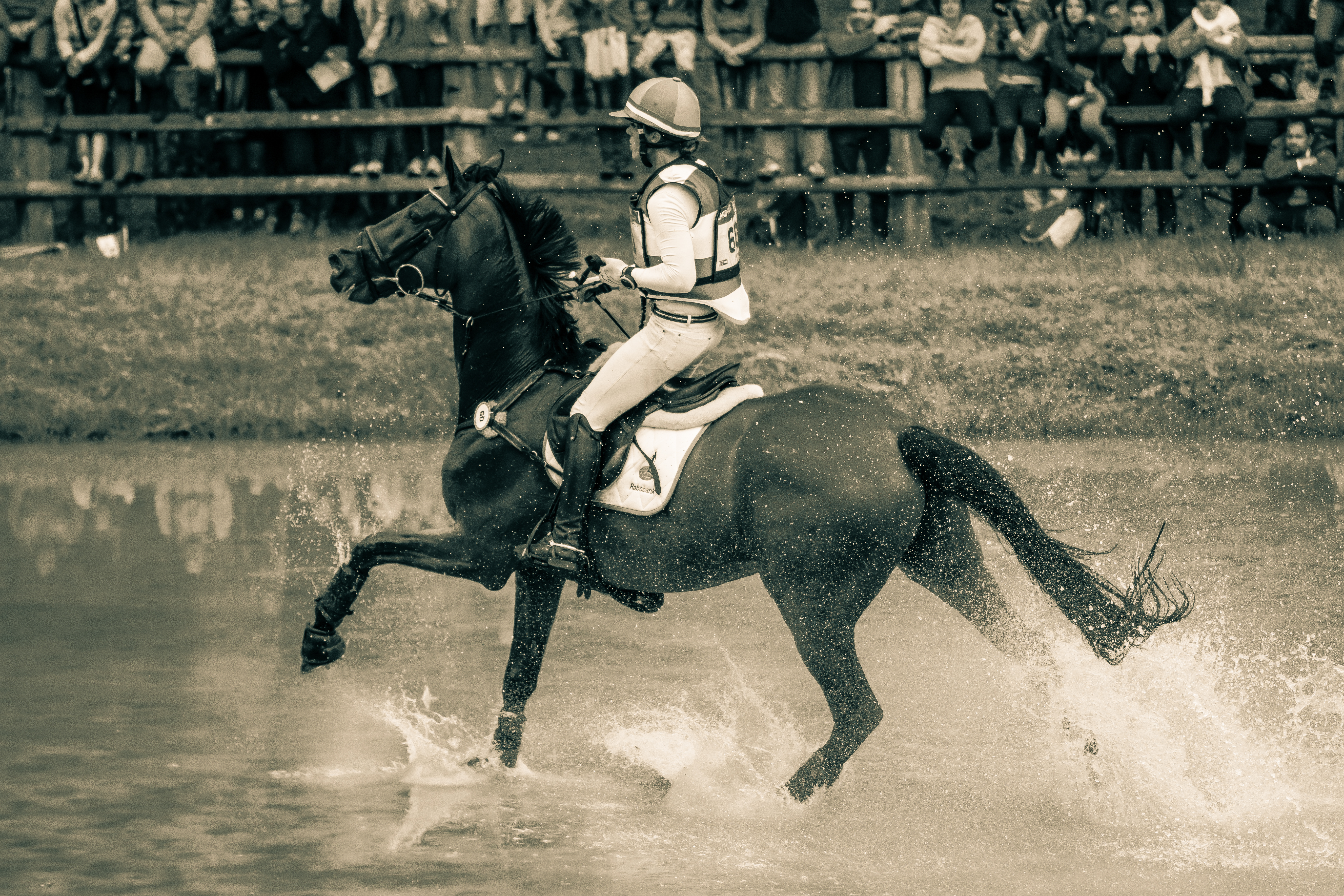 Merel BLOM (NED) - RUMOUR HAS IT, AllTech FEI World equestrian games 2014 in Normandy - Cross-country phase of Eventing at Haras du Pin